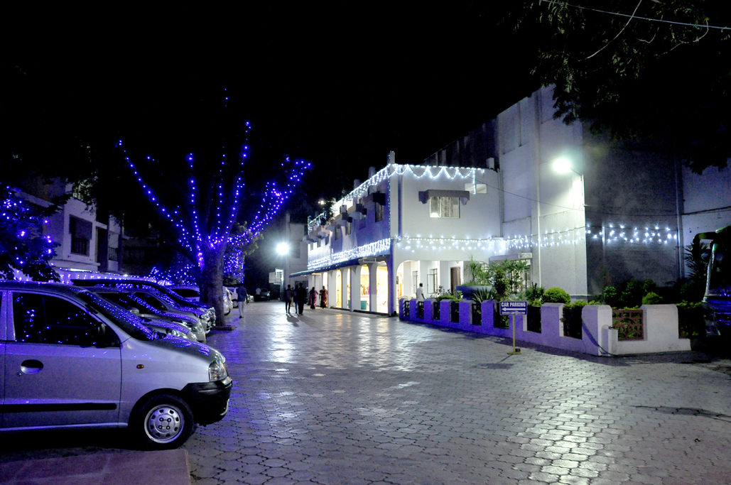 PAKSHIRAJA STUDIOS's present image